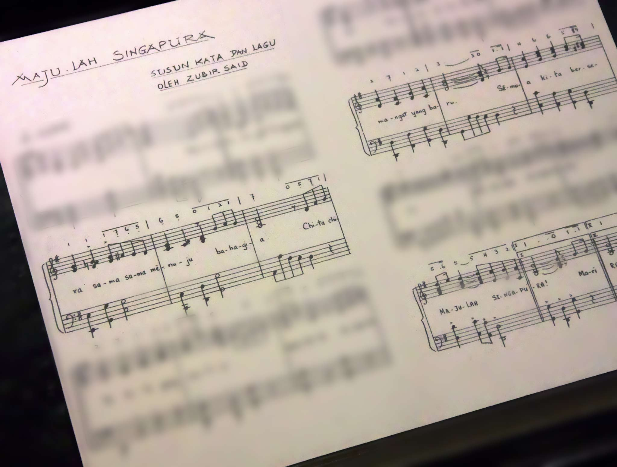 A handwritten score of "Majulah Singapura" (Malay for "Onward Singapore"), the national anthem of Singapore, in an exhibition at the National Museum of Singapore. [For copyright reasons, certain parts of the score have been obscured.]